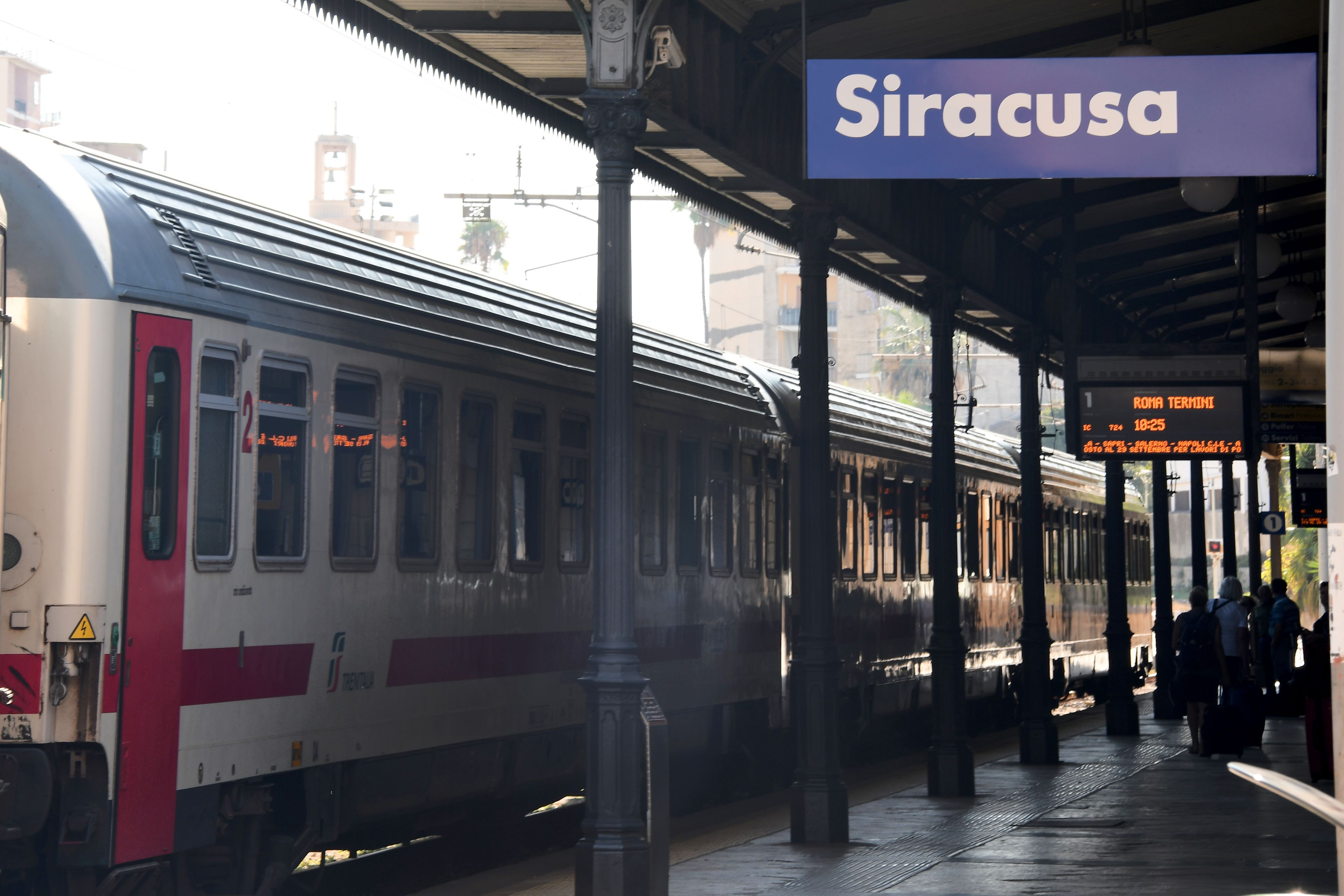 Siracusa,Intercity nach Roma Termini